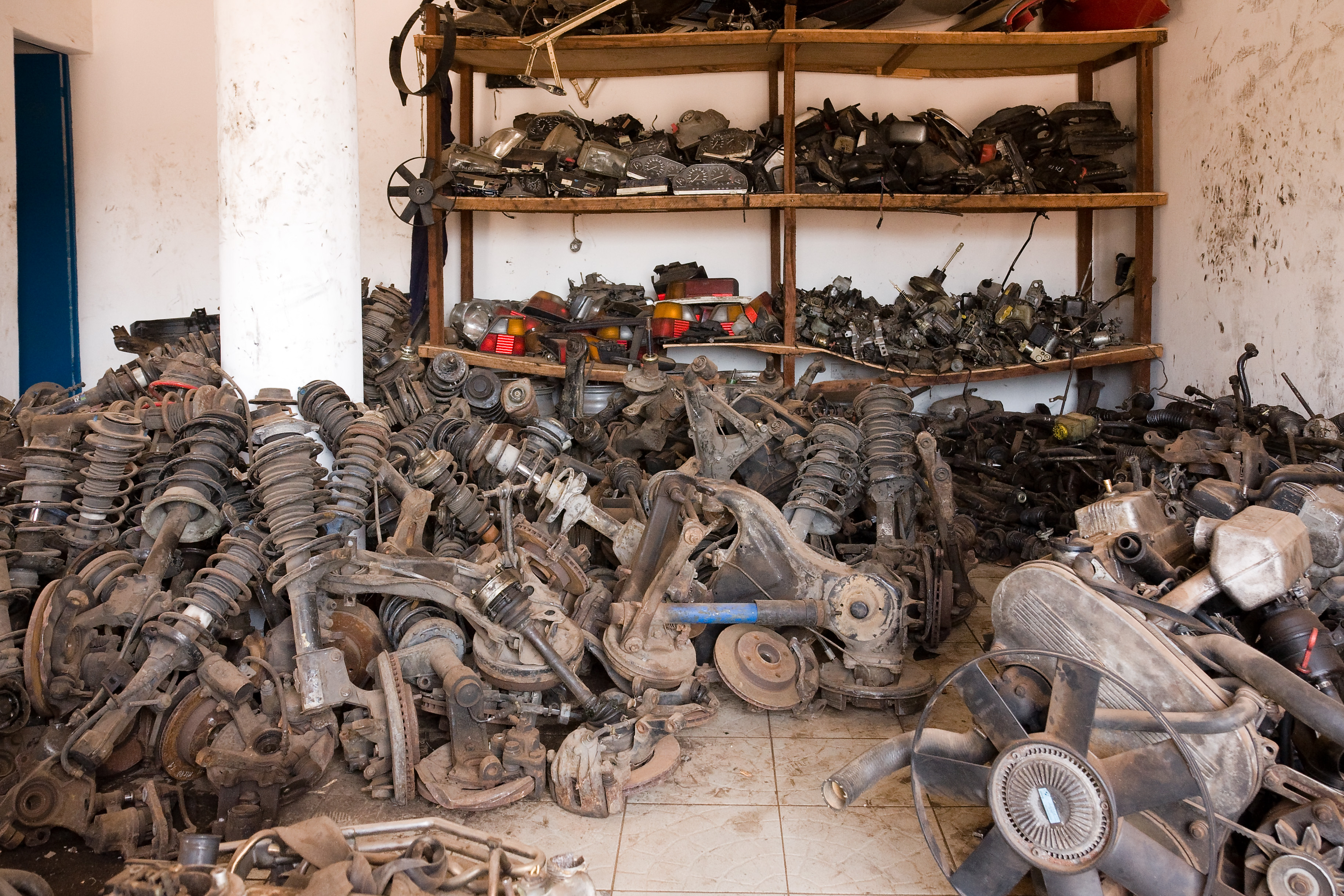 Spare parts shop in The Gambia